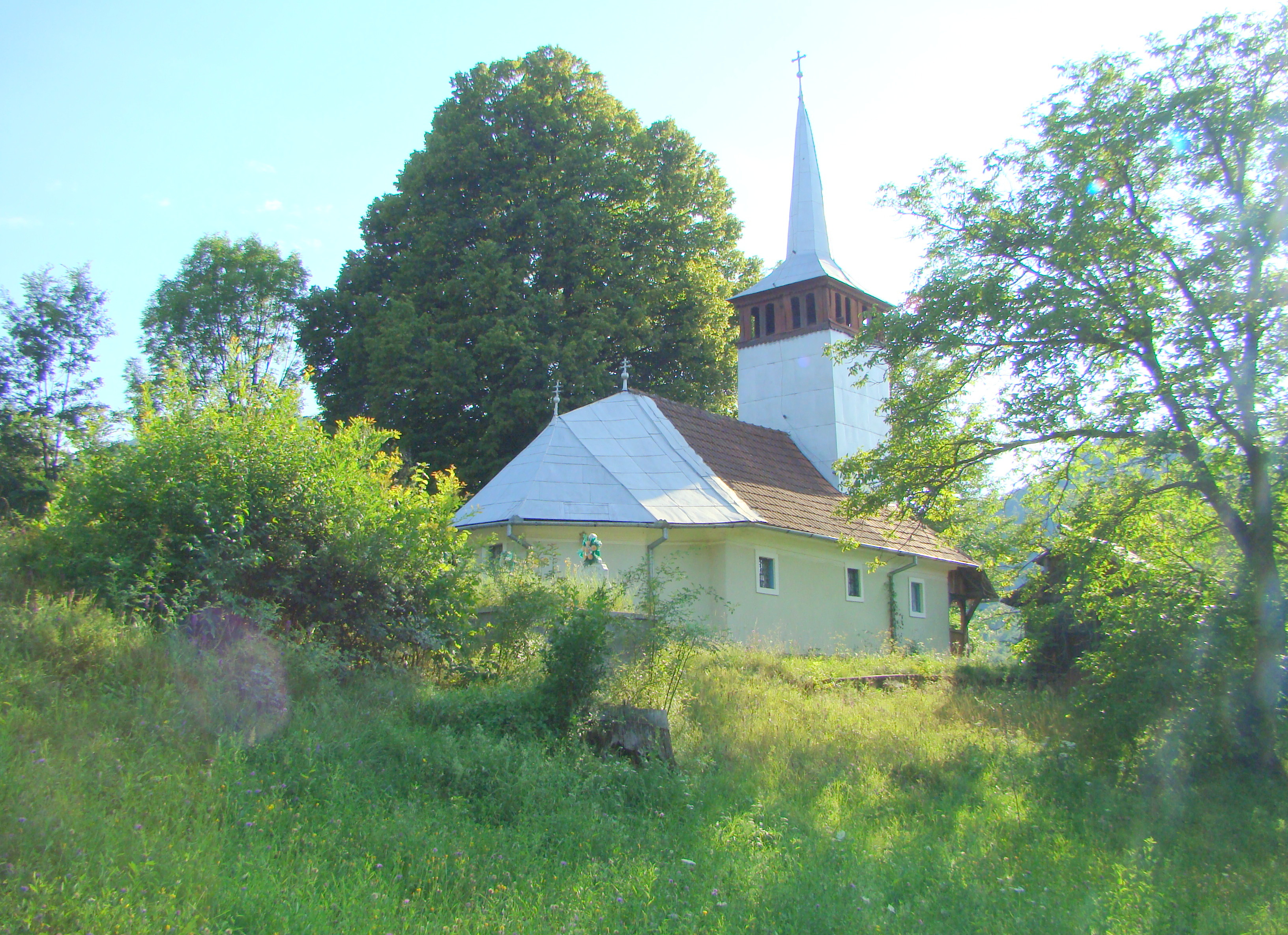 Orthodox church in Căraci, Hunedoara County, Romania